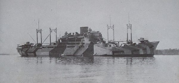 Japanese auxiliary cruiser Hōkoku Maru